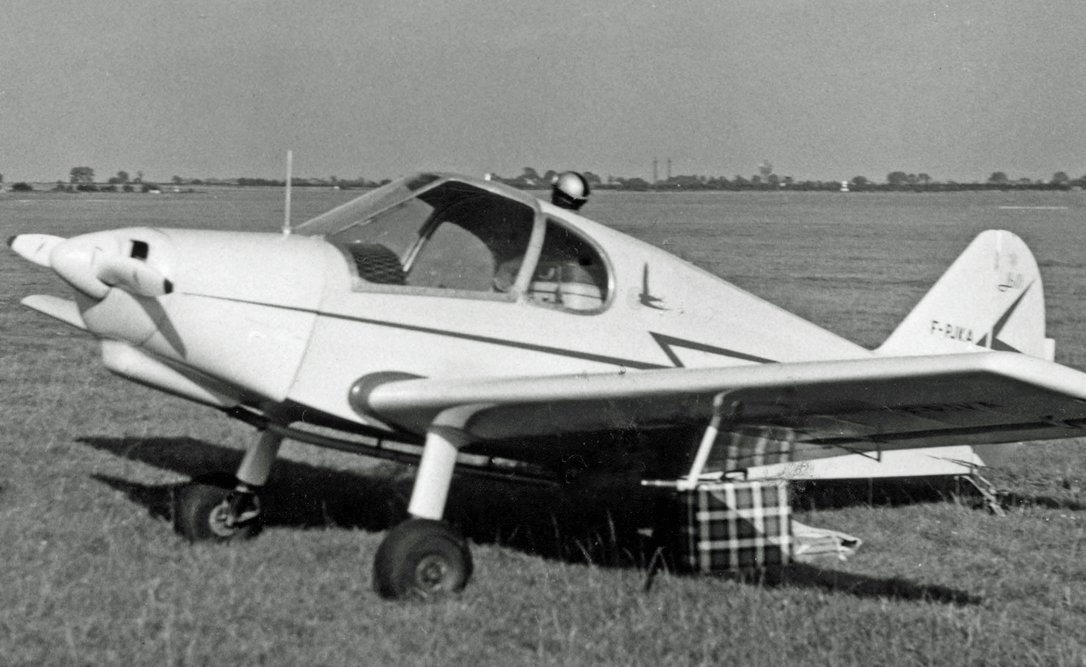 CAB (Gardan) GY-20 Minicab F-PJKA, built to Barritault JB.01 standard, at Cranfield, Beds, in September 1960. Now on the CAA Register as G-ATPV.